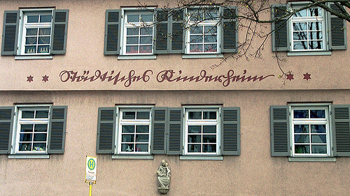 „Städtisches Kinderheim“ [City children's home] in Esslingen am Neckar. Example of German Kurrent.